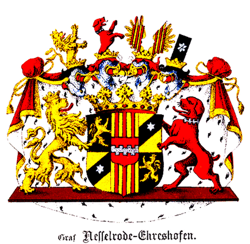 Coat of Arms of Nesselrode-Ehreshofen family